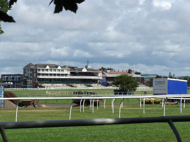 The Eglinton stands, Ayr race course.